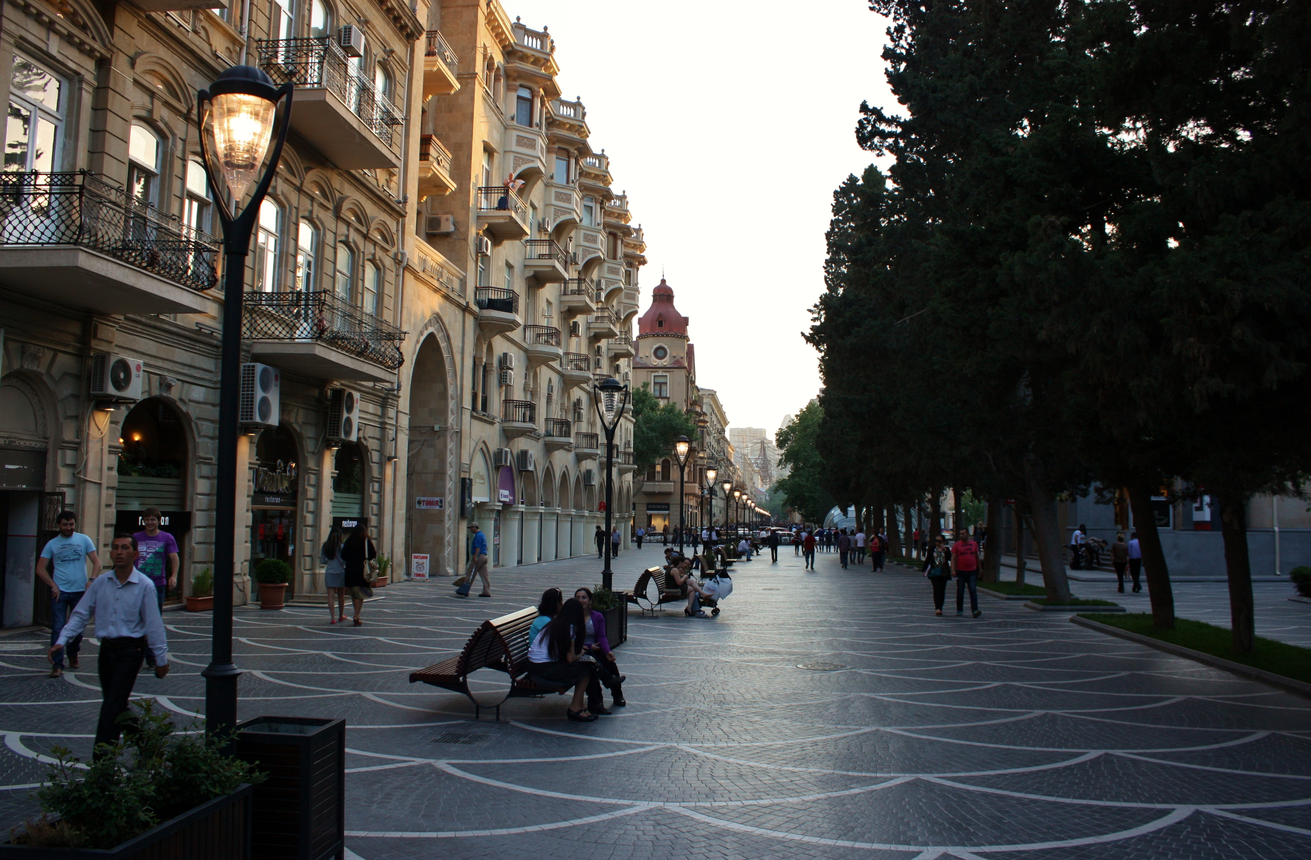 Nizami Street, Baku. Near the Bul-Bul Avenue underpass.